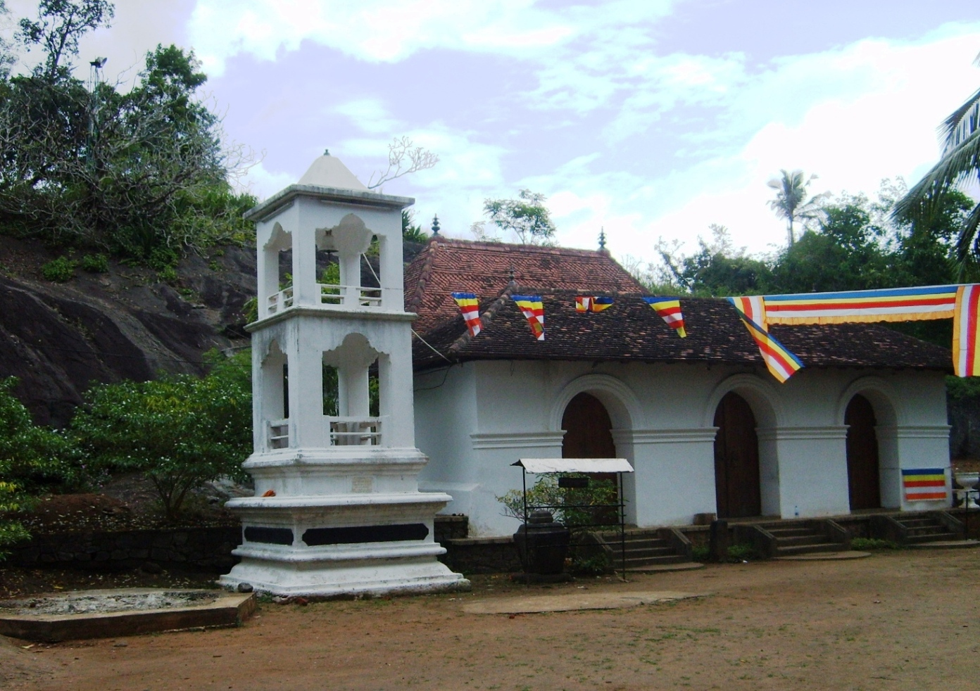 The Degaldoruwa temple in Kandy, Sri Lanka. The 17th century cave temple contains some of the best preserved wall paintings of the Kandy period.